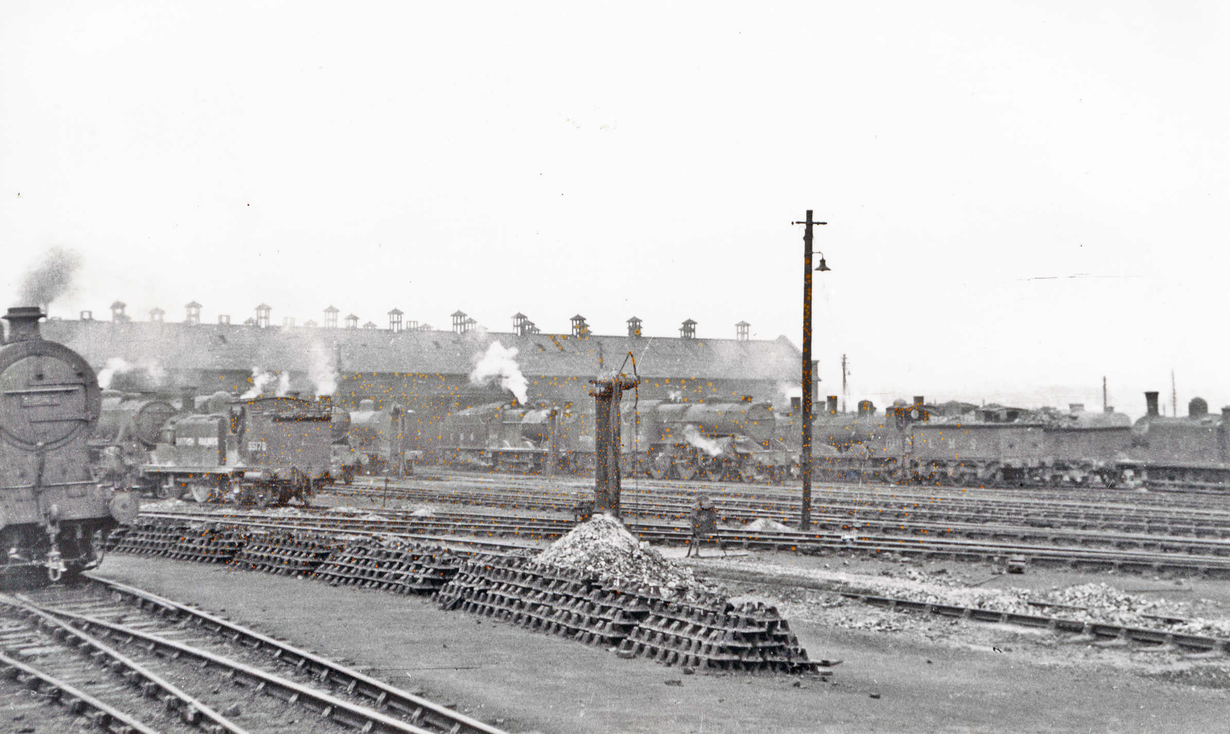 St Rollox (Balornock) Locomotive Depot, 1948A Sunday scene, when most of the Depots 75 or so locomotives were "at home". This was the Caledonian Railway's principal depot for services from Glasgow Buchanan Street, all closed some 50 years ago. The allocation in 1950 comprised:- 33 4-6-0, 5 4-4-0, 1 2-6-0, 27 0-6-0, 7 0-6-0T and 3 0-4-4T.